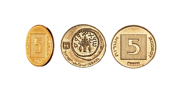 Replica of a coin from the fourth year of the war of the Jews against Rome depicting a lulav between two etrogim, the state emblem, "Israel" in Hebrew, Arabic and English.